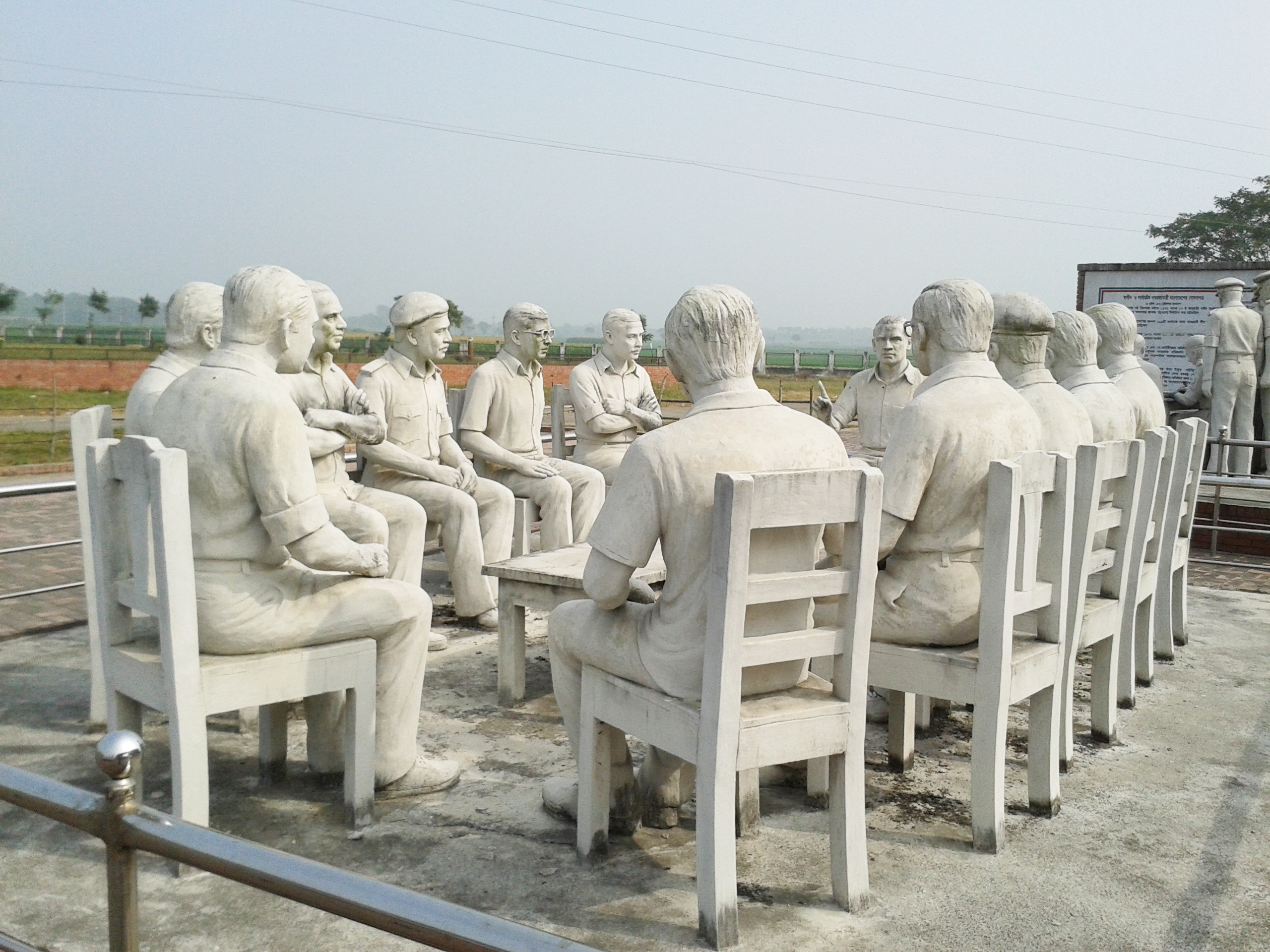 The Historic Teliapara Conference